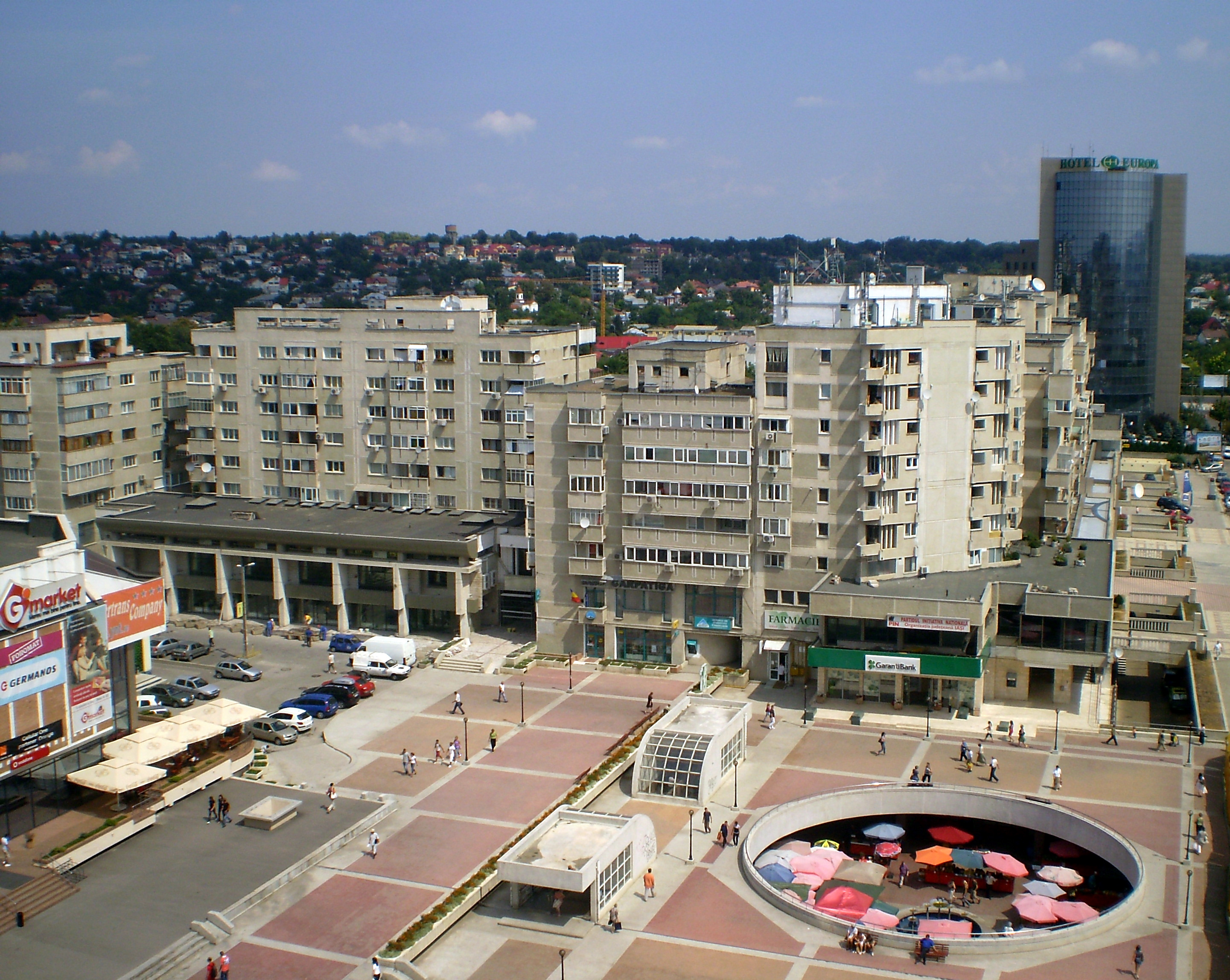 Iaşi , panoramic view to Civic Center , Central Market Square , Iaşi , RomaniaRomână: Iaşi , vedere spre Centrul Civic , Piaţa Halei Centrale , Iaşi , România